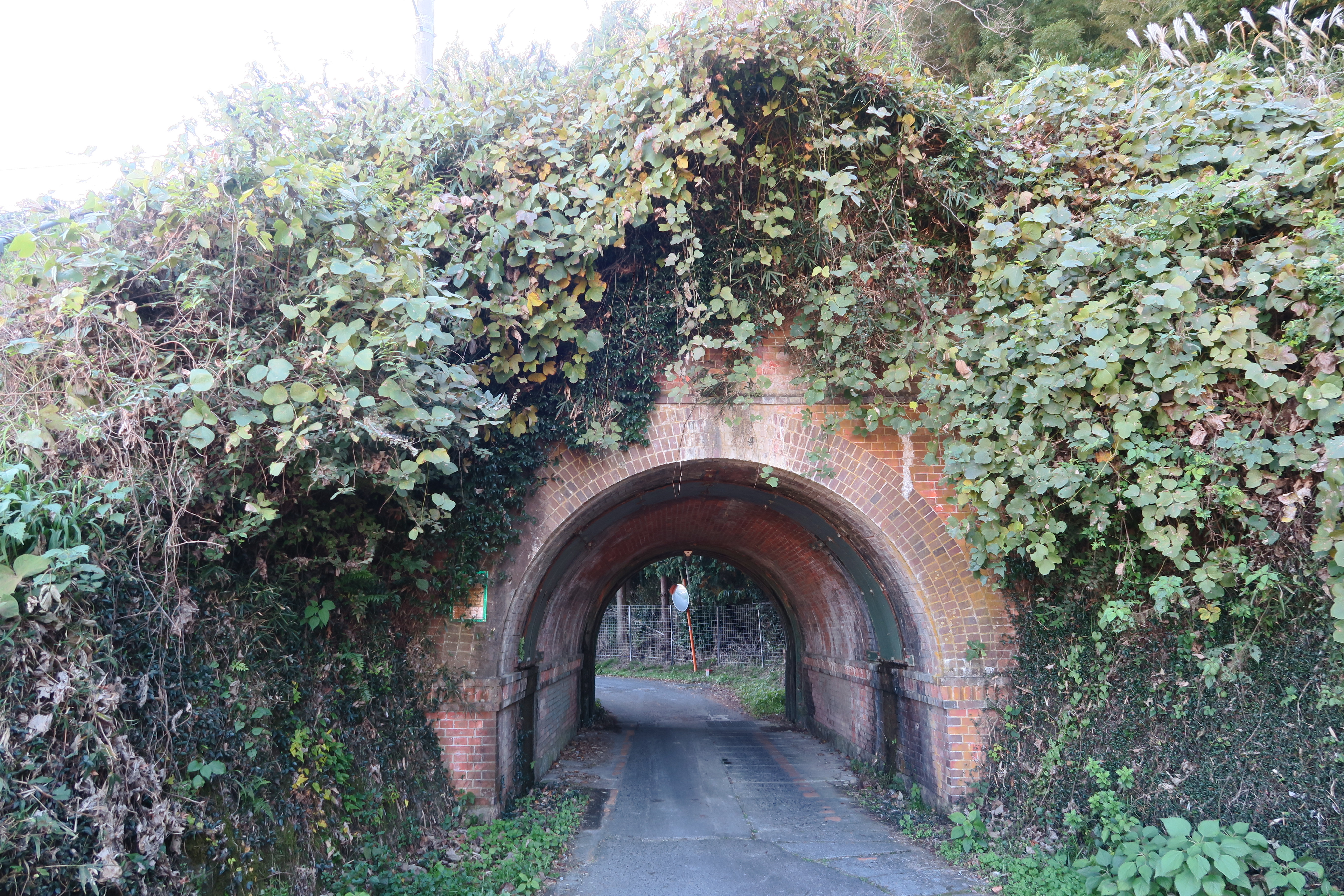 Kokubu bridge, Minakuchi, Koka, Shiga